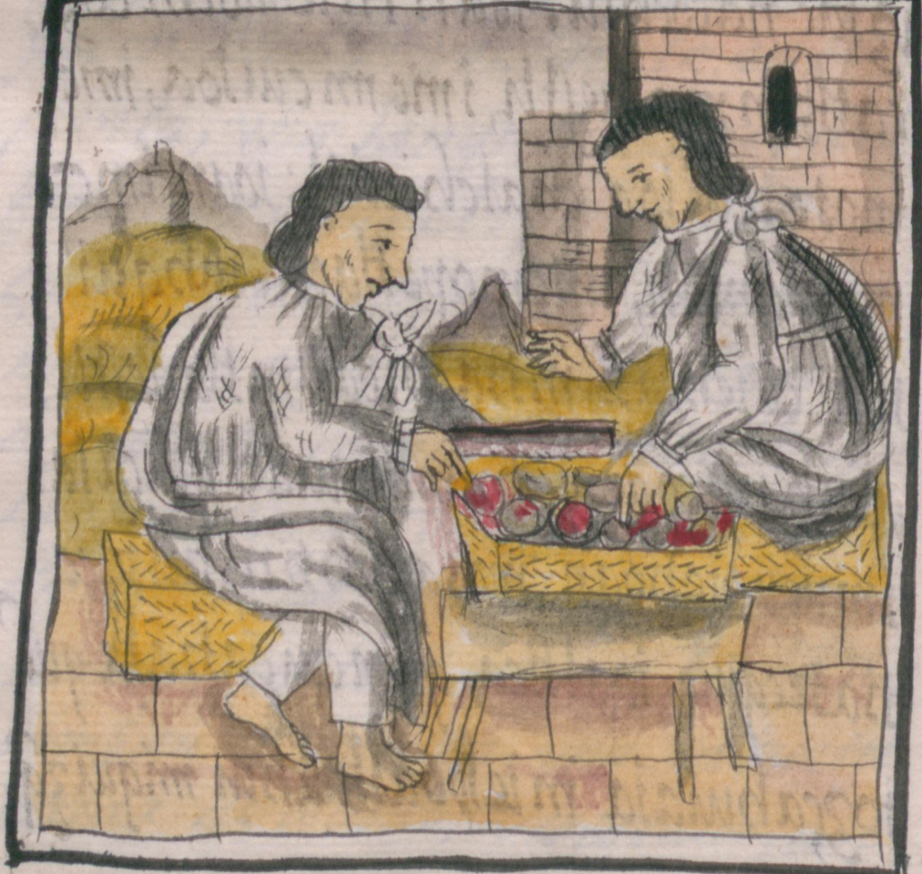 Florentine Codex Book IX Fo 56 Lapidary measuring gemstones